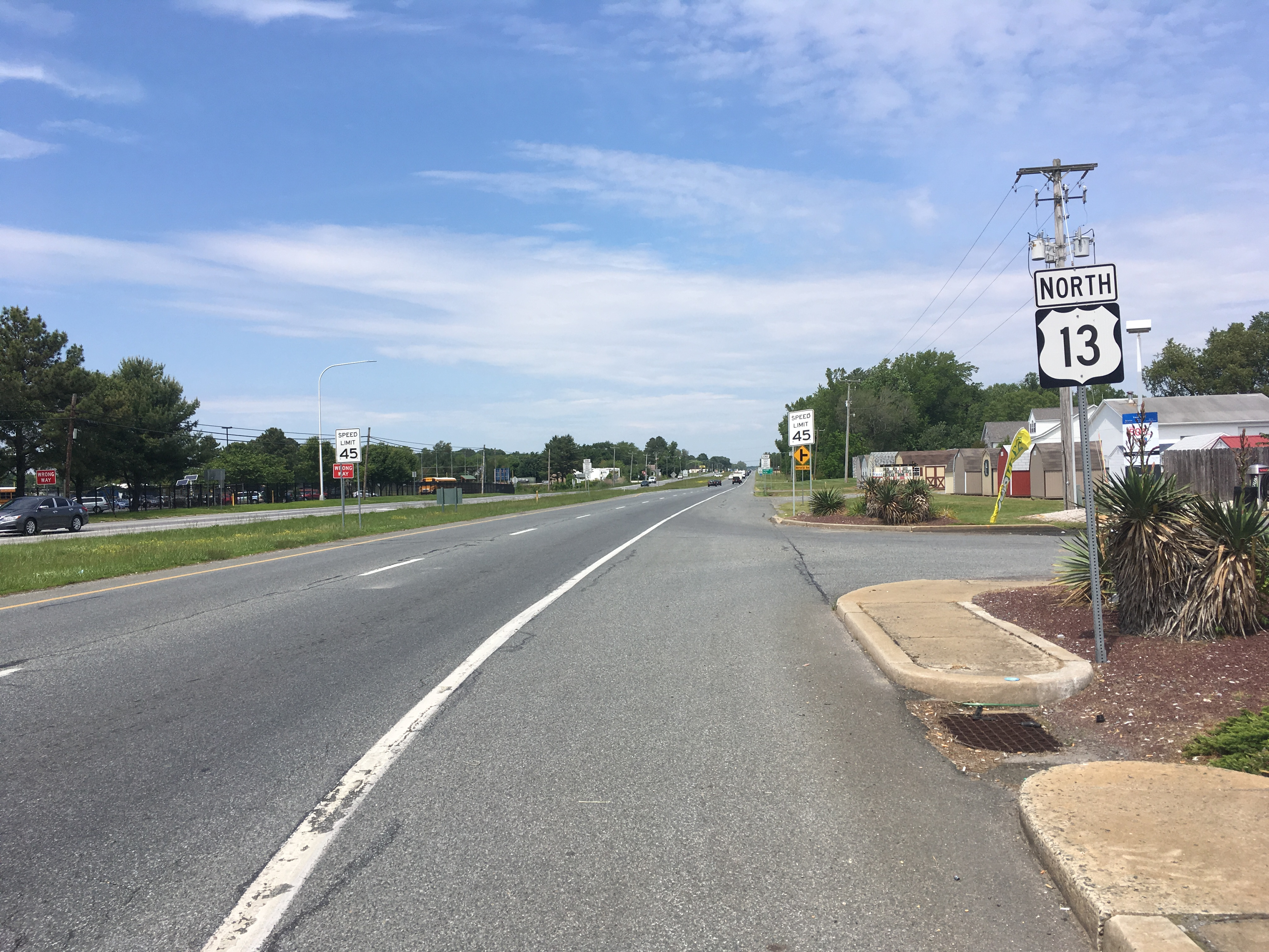 Northbound U.S. Route 13 (Dupont Highway) past the intersection with Delaware Route 12 (Main Street/Midstate Road) in Felton, Delaware